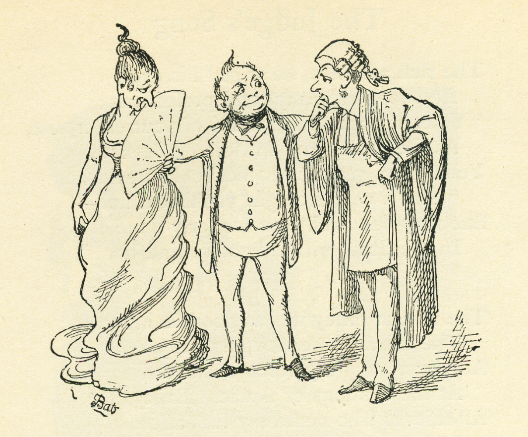 W. S. Gilbert's "Bab" illustration to the Judge's Song ("When I, good friends, was called to the Bar") from Trial by Jury.